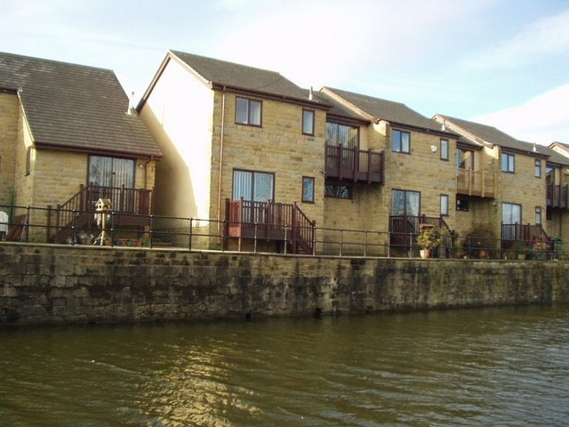 Airedale Wharf, Rodley. These houses in Airedale Wharf, Rodley, back onto the Leeds and Liverpool Canal. The canal just passes through the north-west corner of the grid square, the intersection of the grid lines is just on the towpath about where I was standing, and only about the 3 leftmost houses are in this square, together with about half of the water.